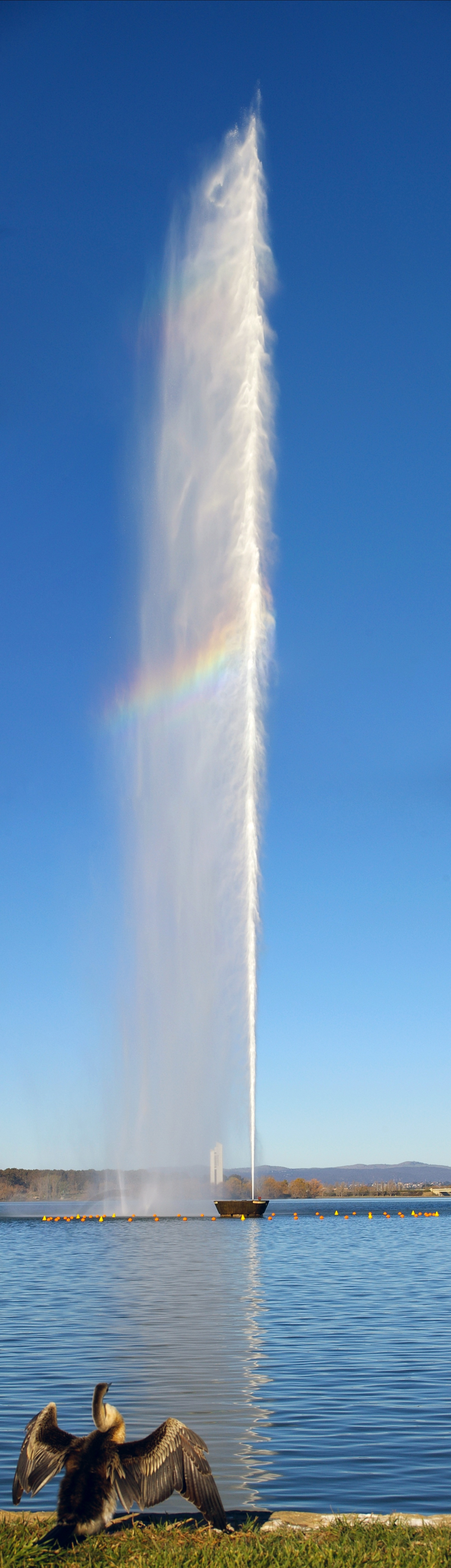 A vertical panorama of the Captain James Cook Memorial water jet on Lake Burley Griffin, in Canberra, ACT. The image shows the entire water jet, a double rainbow in the water jet mist, and a Darter (Anhinga melanogaster) in the foreground. In the background is the National Carillon.